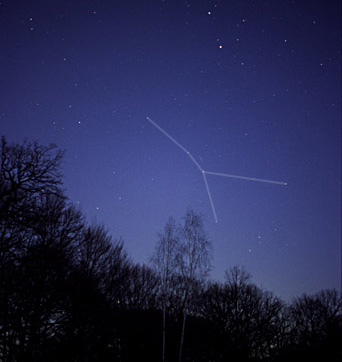 Photography of the constellation Cancer, the crab